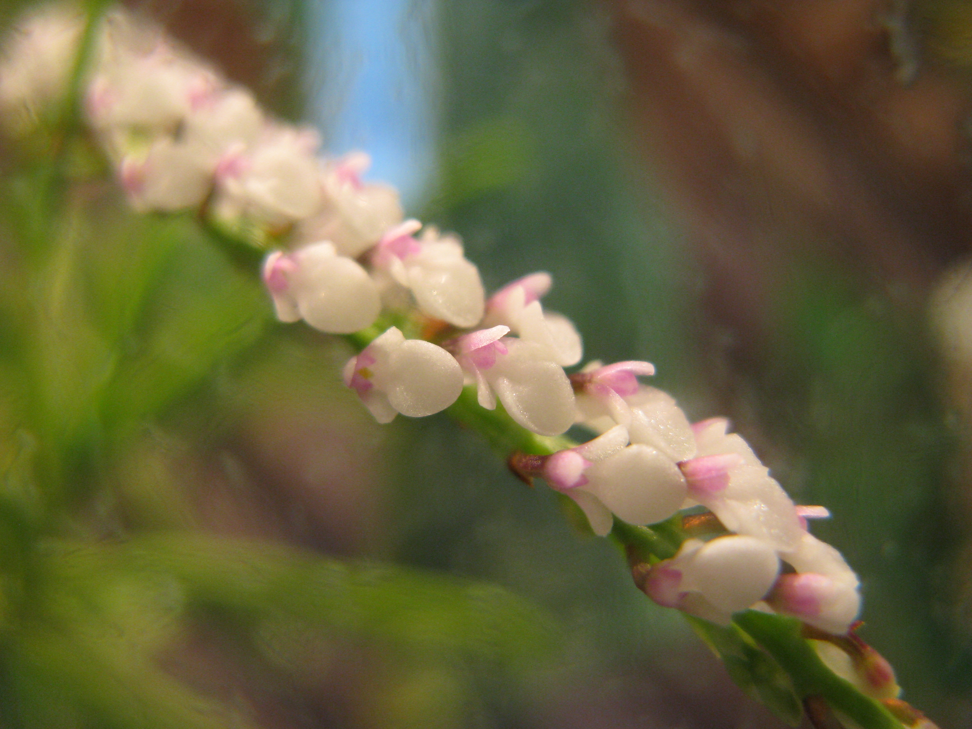 Scientific name Schoenorchis gemmata Place:Osaka Prefectural Flower Garden,Osaka,Japan